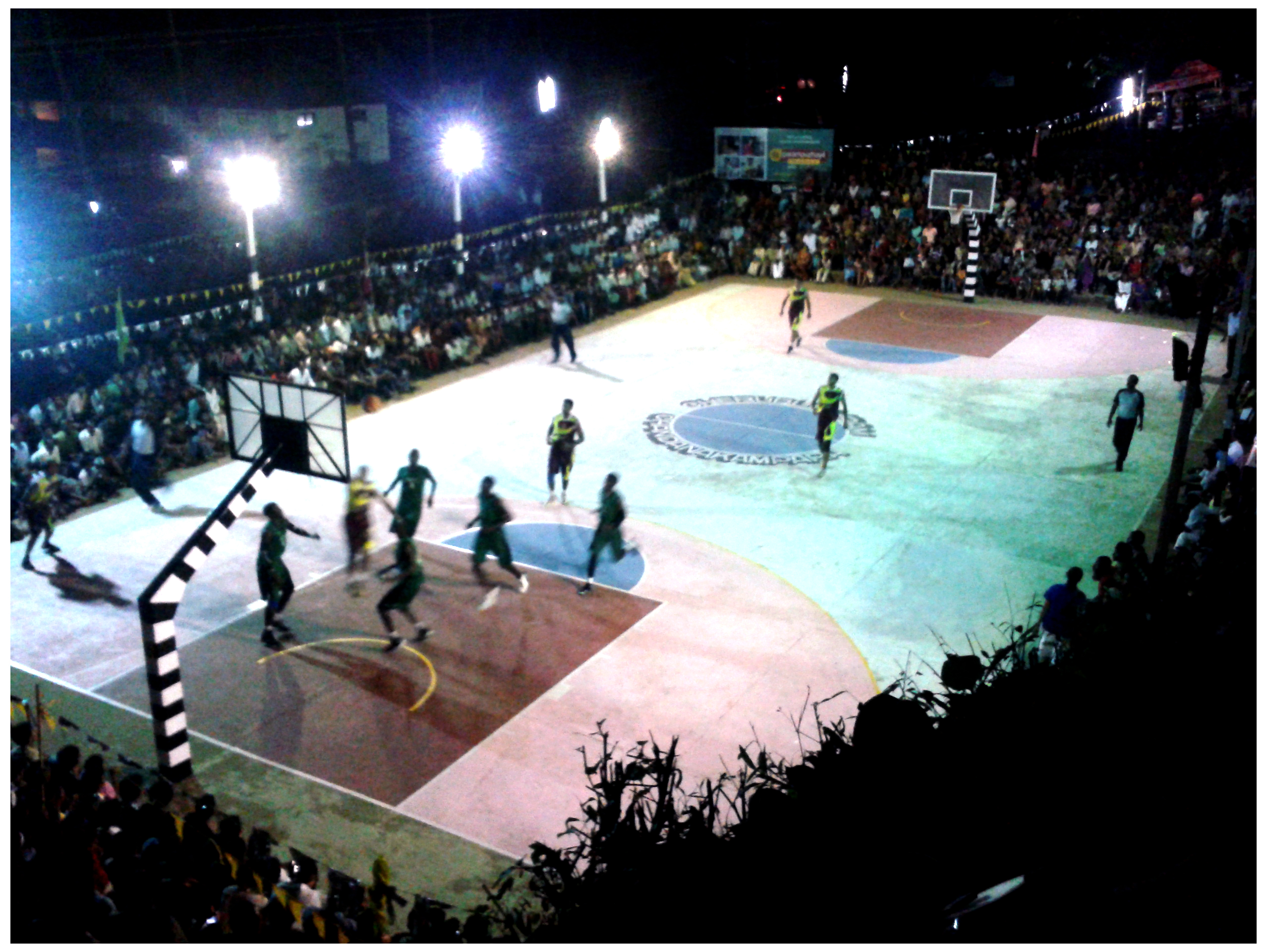 A seen from Basket ball tournament organised in chandanakampara on 2013